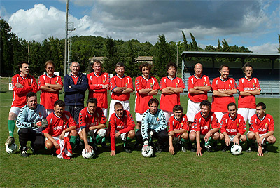 Football team of Hungarian writers.